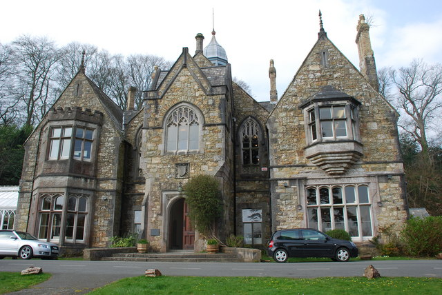 Plas Glyn y Weddw Llanbedrog Glyn-y-Weddw was built for Lady Love Jones Parry as a Dower House in 1856, the Architect being Henry Kennedy. Although it is said she never slept here, she visited it weekly by carriage from Madryn, her home further in the peninsula. Glyn-y-Weddw was purchased together with other land by Solomon & F. E. Andrews at the sale of parts of the Madryn Estate on 11/12 August 1896. The horse tramway, along the sandhills from Pwllheli, was then extended from Carreg-y-Defaid to terminate opposite the entrance to Glyn-y-Weddw. The house was converted into an Art Gallery and the stable-yard roofed over to form a ballroom which was also used for afternoon teas. Trips by tram to Llanbedrog for the beach and to the house and grounds, and for the evening dances organised by F.E.Young, became a feature of a holiday at Pwllheli.